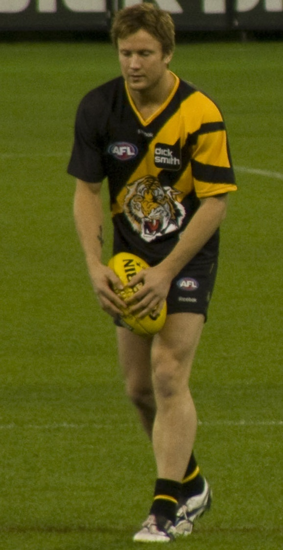 Nathan Brown at the Richmond vs Essendon warm up MCG